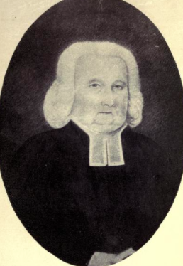 Rev Bruin Romcas Comisco, Lunenburg, Nova Scotia